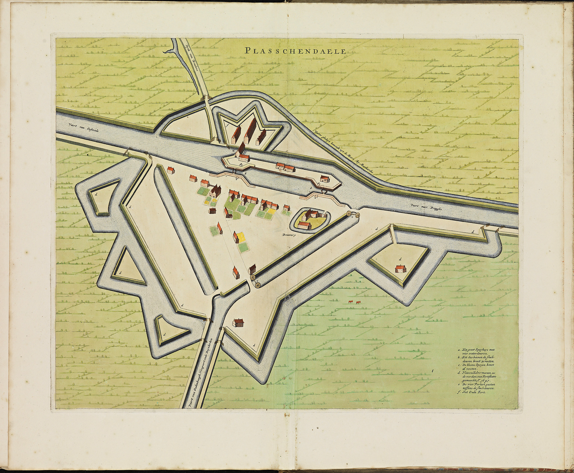 Plate 'pl109'(Plassendaal) from the Stedenboek (citybook) by Frederick de Wit.